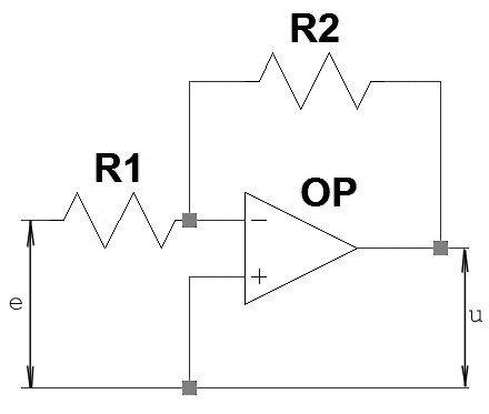 Regulator proporcionalnog dejstva